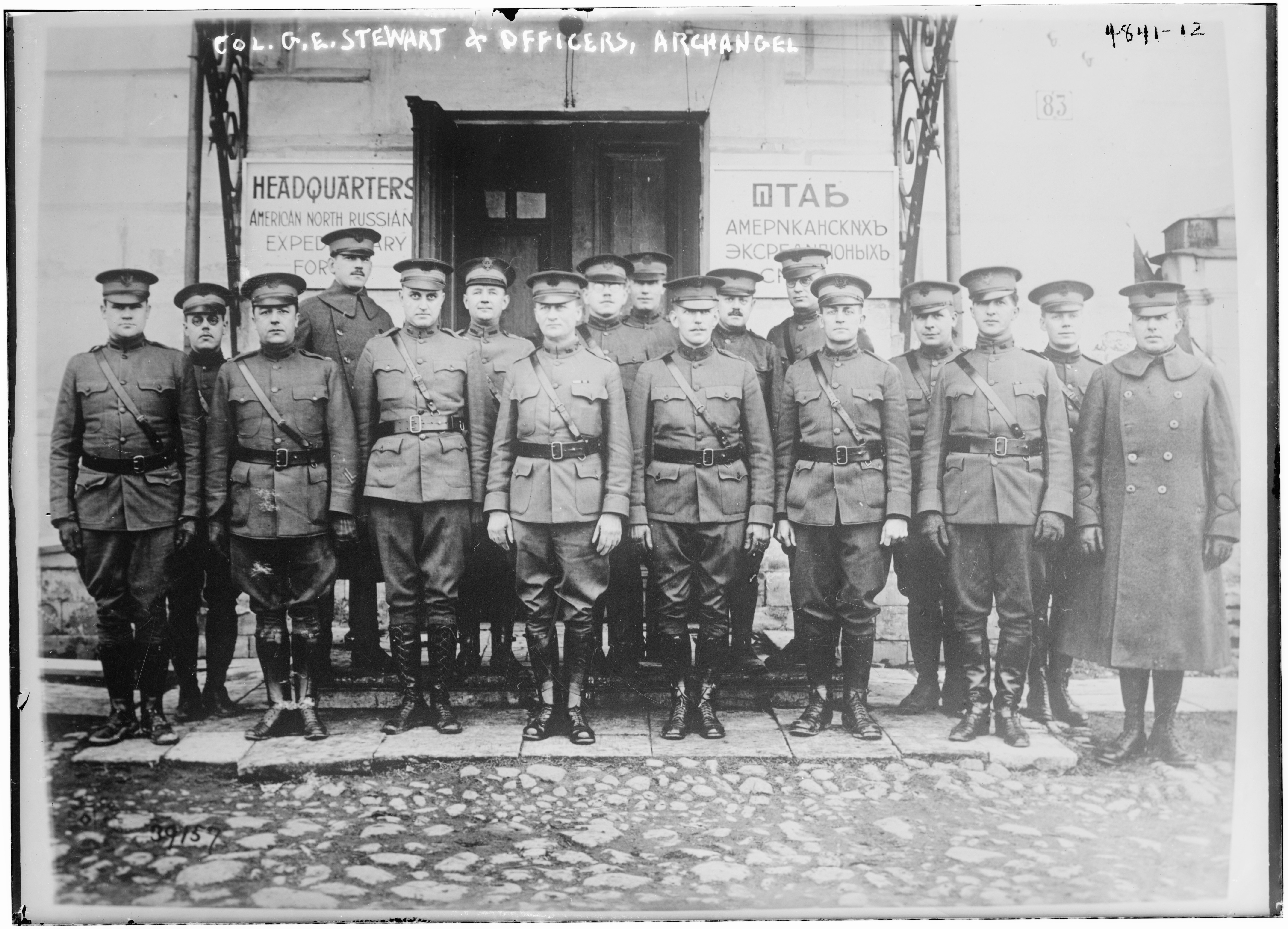 George Evans Stewart in 1919